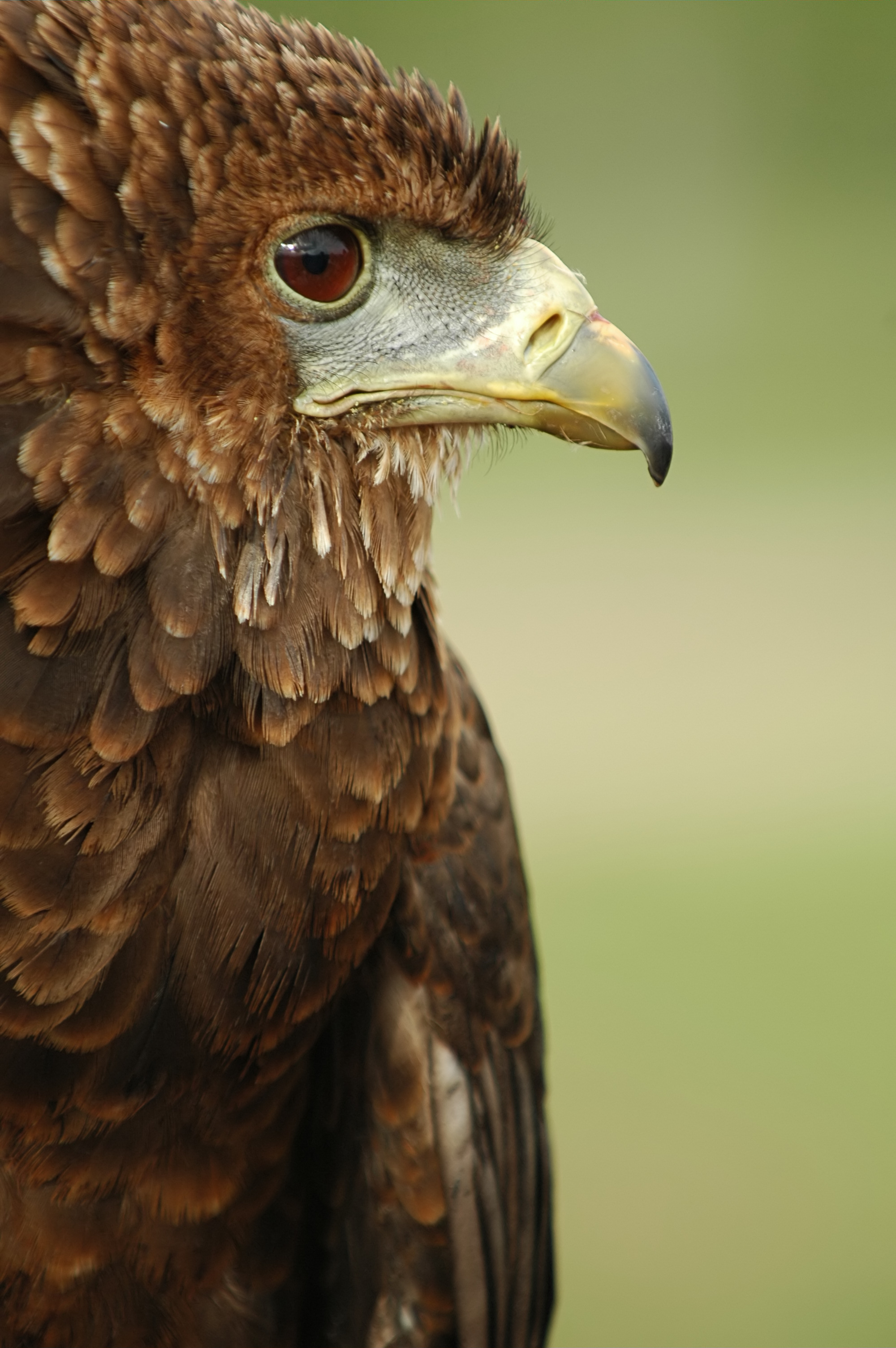 A juvenile Bateleur Eagle (Terathopius ecaudatus)